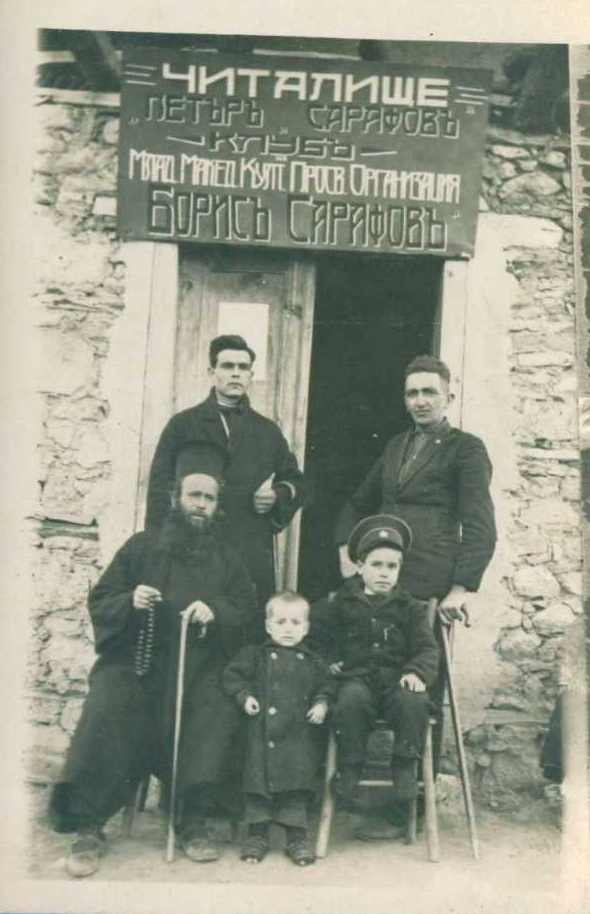 Photo of the cultural club in Libyahovo "Petar Sarafov"